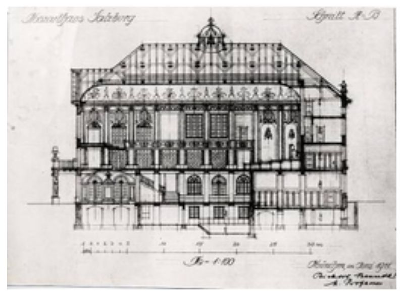 Architectural sketch